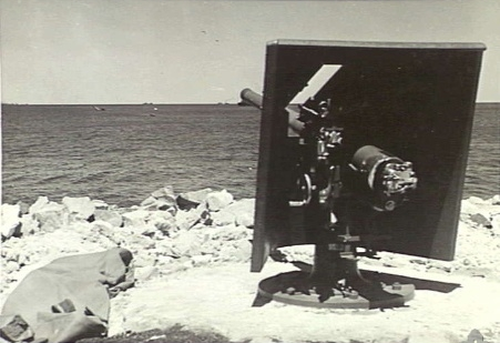 AWM caption : "FREMANTLE, WA. 1943-01-21. 12-POUNDER EQUIPMENT AT SOUTH MOLE, FREMANTLE FIXED DEFENCES." Comment : This is a QF 12 pounder 12 cwt early-model gun, Mk I or II.